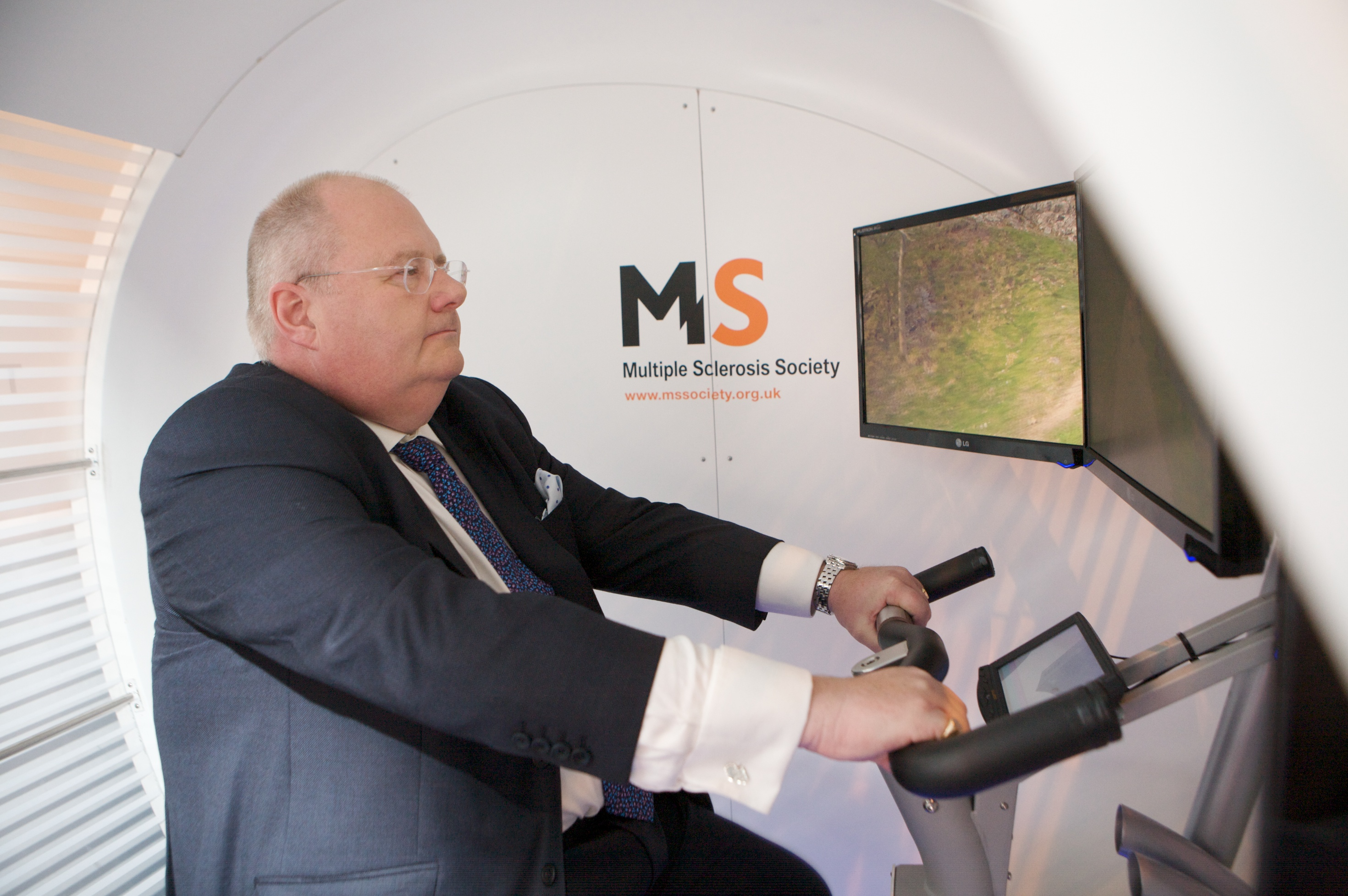 Eric Pickles, British politician and Chairman of the Conservative Party, at the Health Hotel "Health Zone" at the Manchester Central Conference Centre during the Conservative Party Conference 2009.